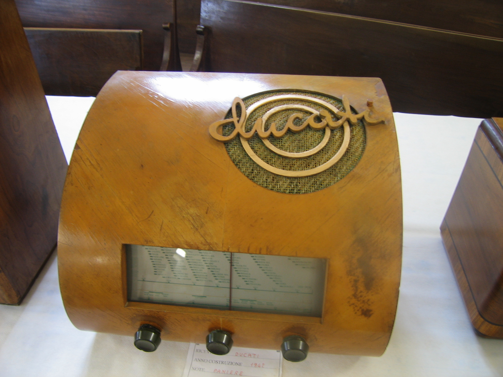 model: Ducati year: 1942